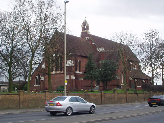 St Augustine's parish church, Stourbridge Road, Holly Hall, Dudley, West Midlands (formerly Staffordshire), seen from the north